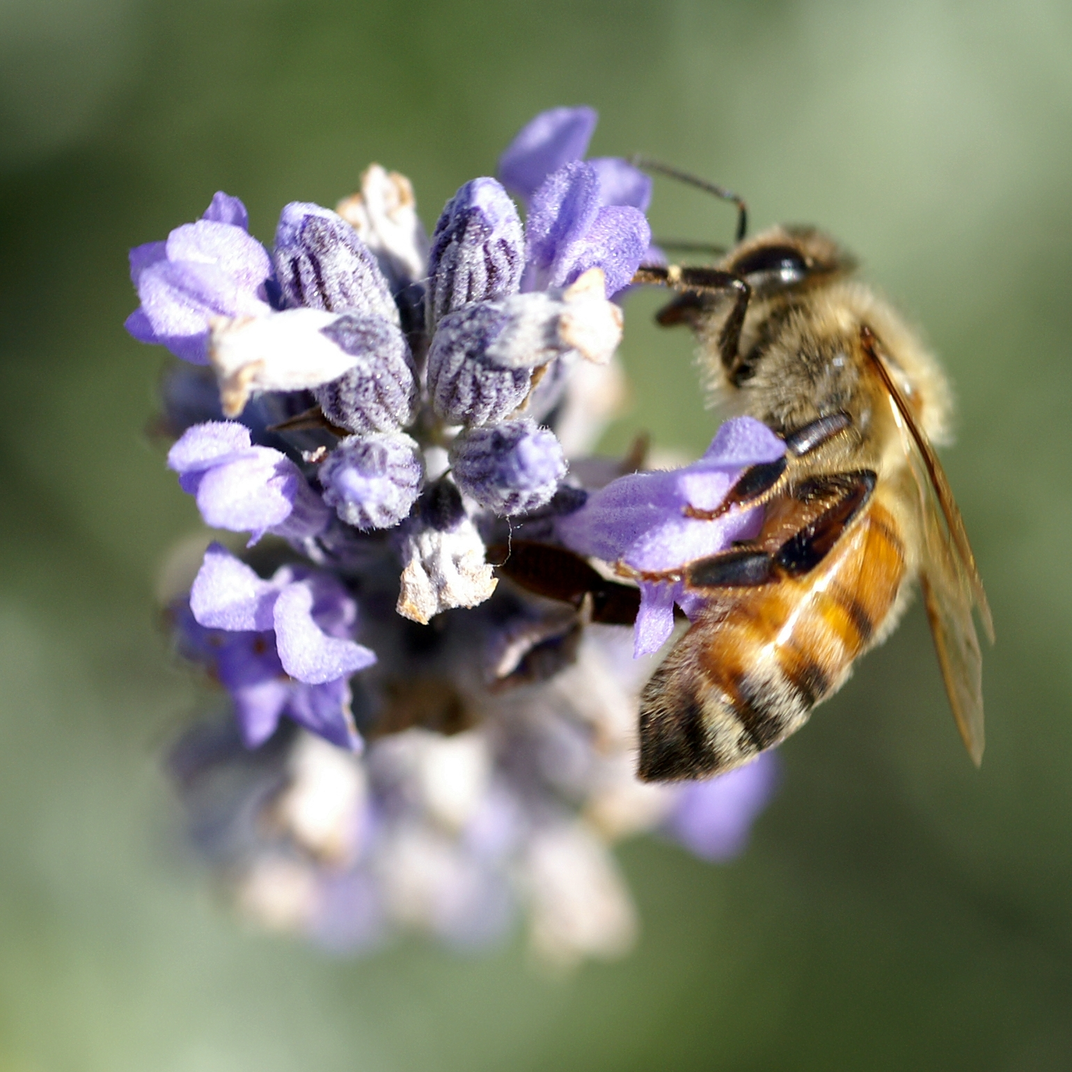 Lavender honey